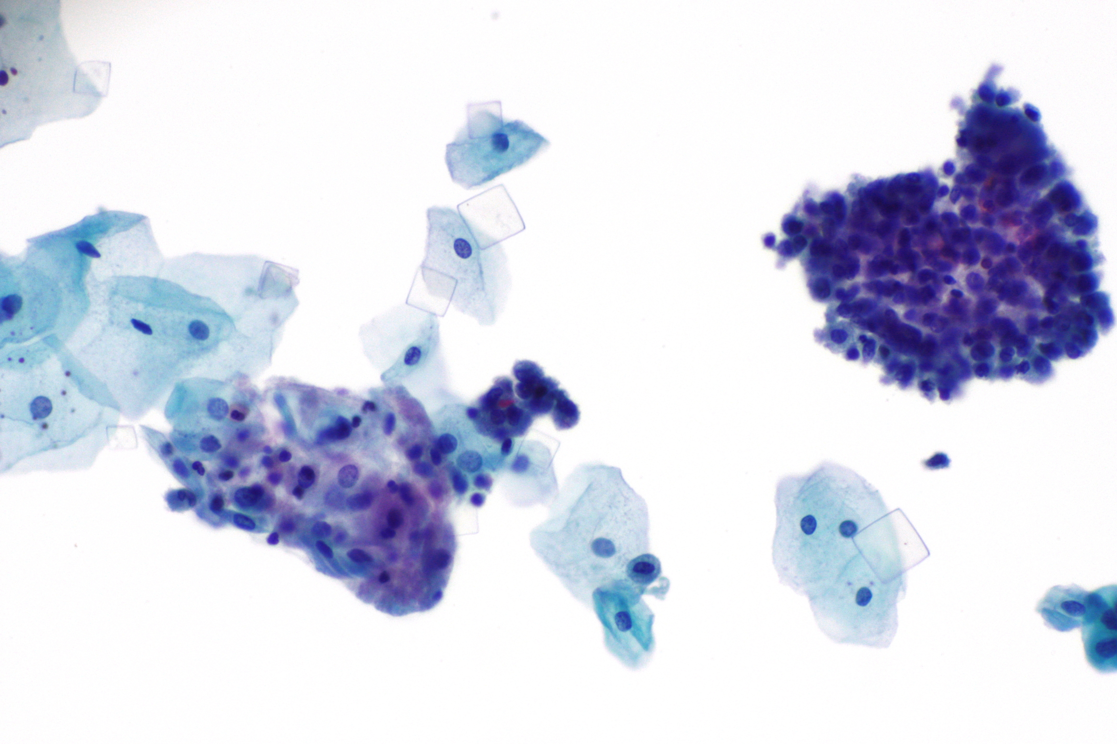 Micrograph showing crystals within a urine cytology specimen. Pap stain. The square/rhomboidal shape is in keeping with uric acid crystals. Related images Crystals - high mag. Crystals - high mag. Crystals - very high mag. Crystals - very high mag. Crystals - very high mag. Crystals - very high mag.